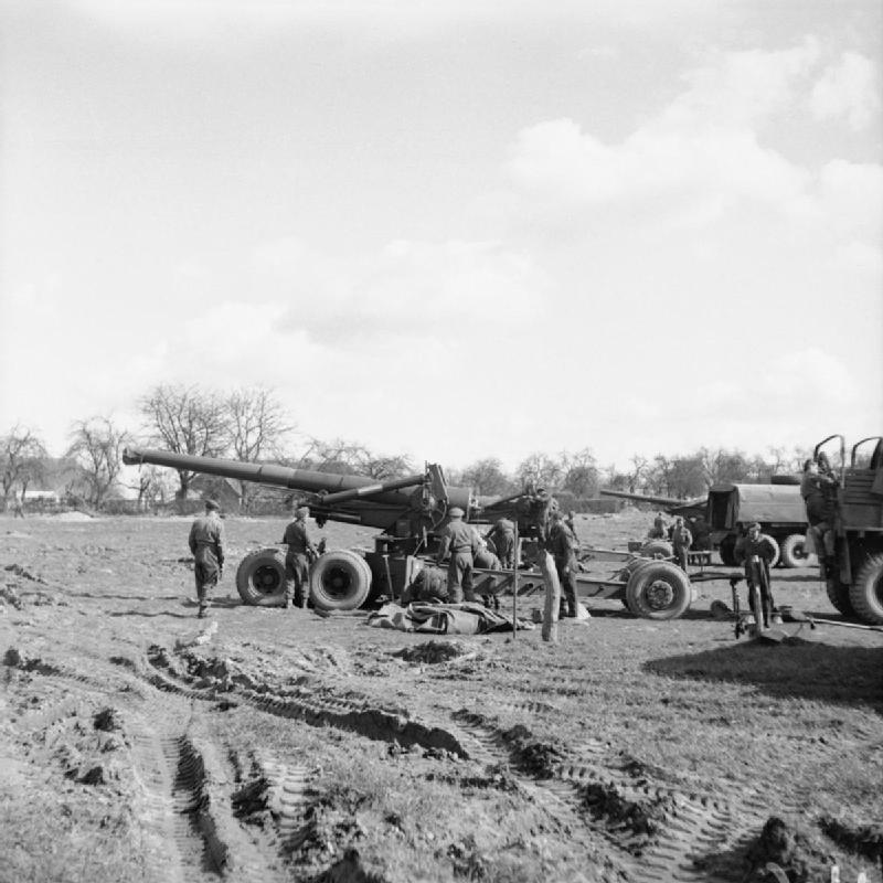 Royal Artillery 7.2-inch howitzers mounted on modified US 155 mm Long Tom carriages being brought up to fire in support of the Rhine crossing.